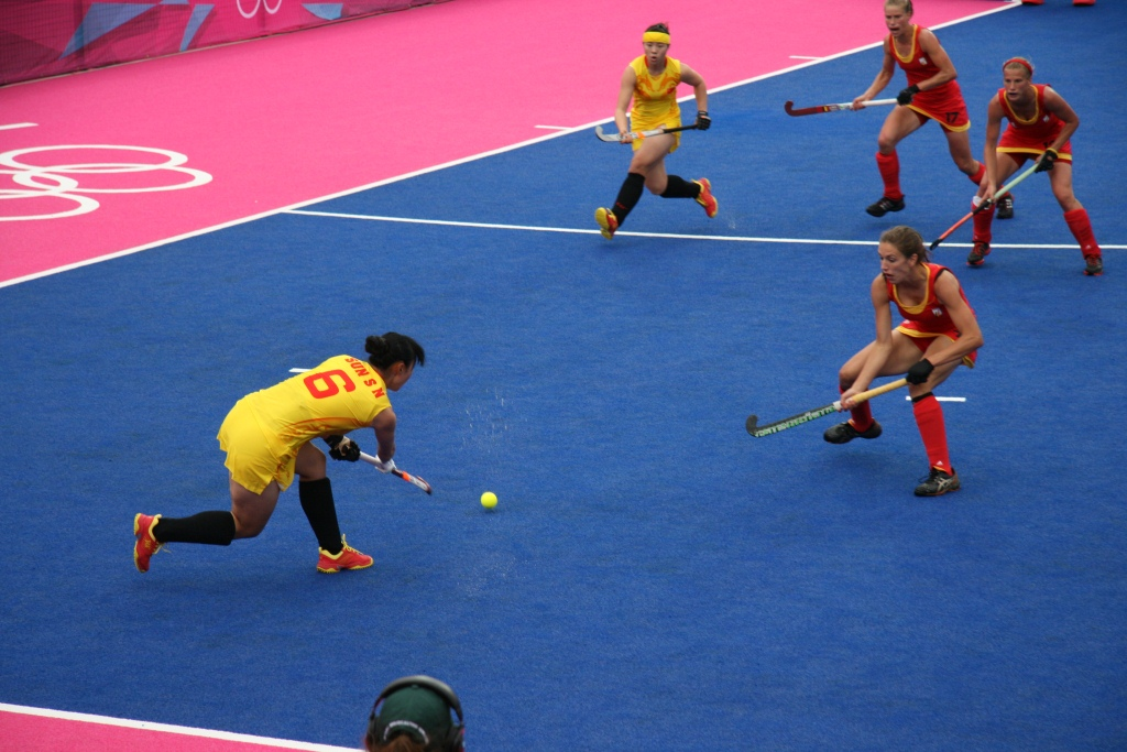 Sun Sinan (6) of China women's national field hockey team - Belgium vs China (0-0) at Riverbank Arena - London 2012 Summer Olympics